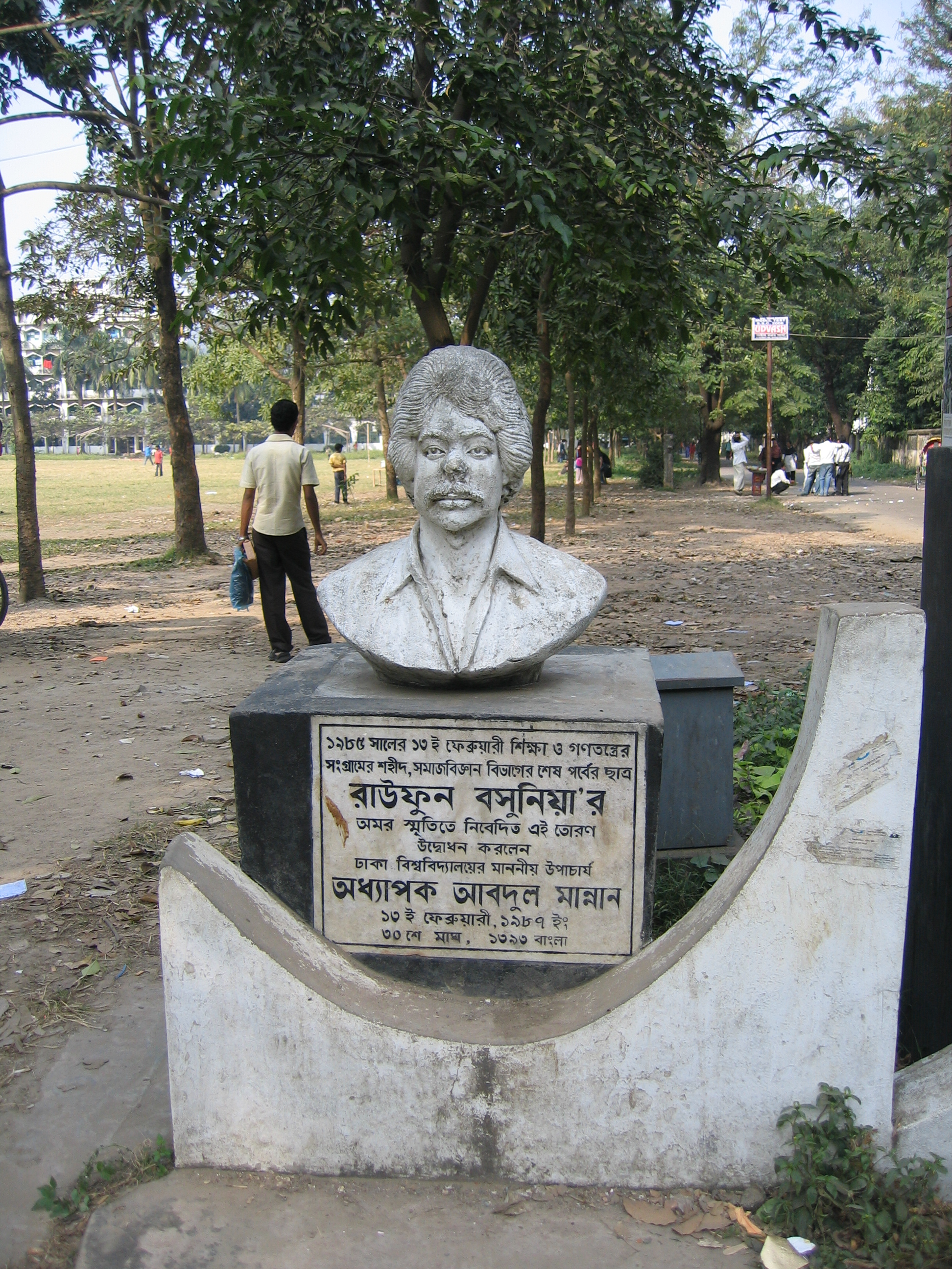 Raufun Basunia was a student of Dhaka University Bangladesh, and a political activist shot dead by police during 1980s.